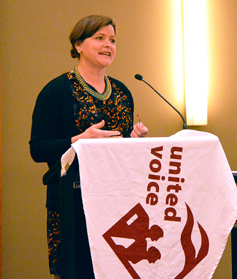 Ged Kearney speaking at the United Voice NSW Delegates Conference.